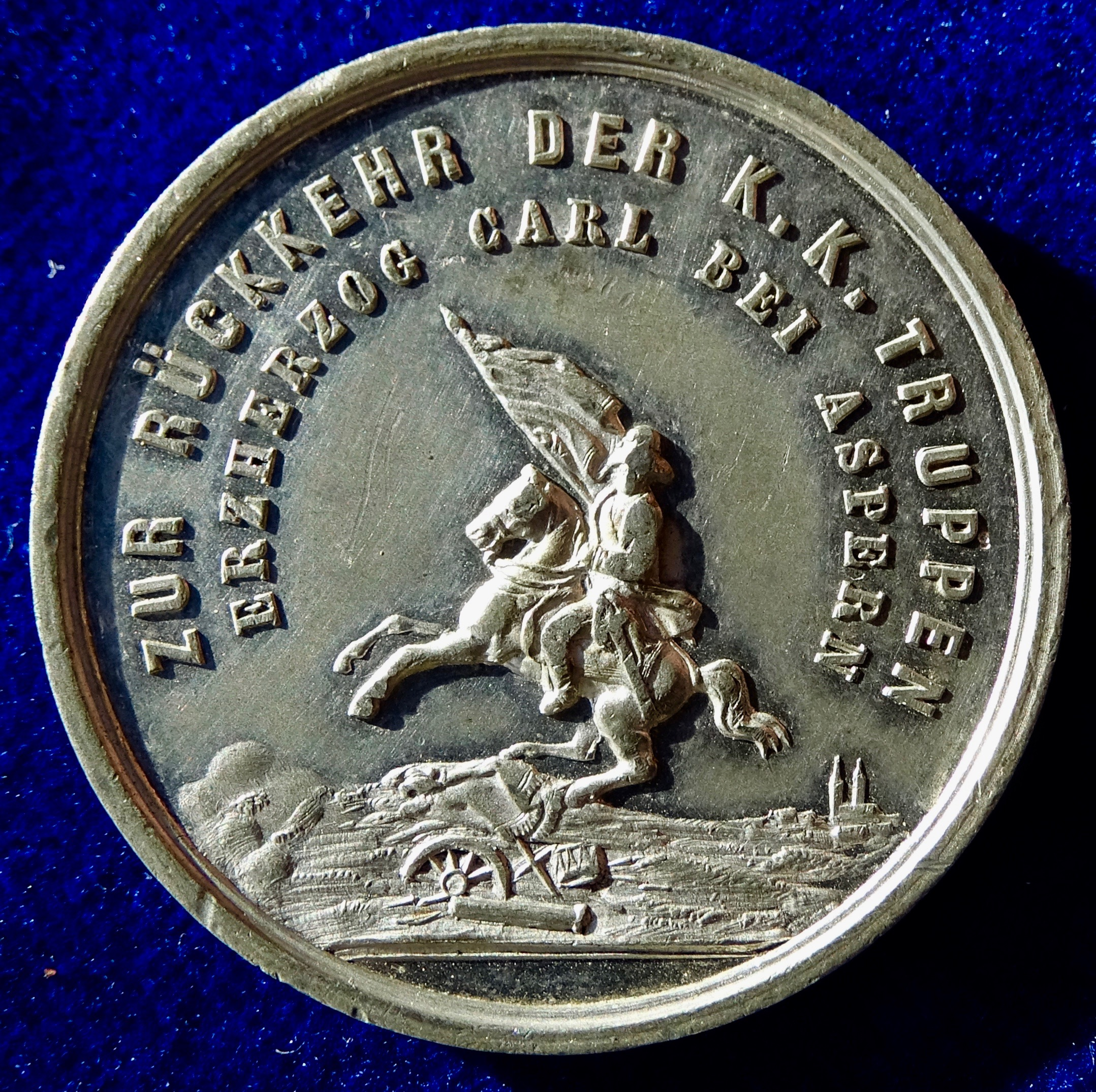 Austrian Medal 1864 (ND), Gablenz's return to Vienna after the Second Schleswig War. Pewter d. = 36 mm. Ludwig Karl Wilhelm Freiherr von Gablenz, Austrian general of German origin, 1814 Jena, Thuringia – 1874 Zürich, Switzerland and Archduke Charles, Duke of Teschen, 1771 Florence, Grand Duchy of Tuscany - 1847 Vienna, Austrian Empire Around uniformed portrait l.: "F.M. LT. FREIHERR V. GABLENZ"/ Archduke Charles on horseback l., 2 lines curved above: "ZUR RÜCKKEHR DER K.K. TRUPPEN ERZHERZOG CARL BEI ASPERN". Wurzbach 3035; Lange -. The Aspern Bridge in Vienna was opened on 30 November 1964 for the return of the Austrian army from Schleswig-Holstein under General Gablenz. Condition: UNCIRCULATED